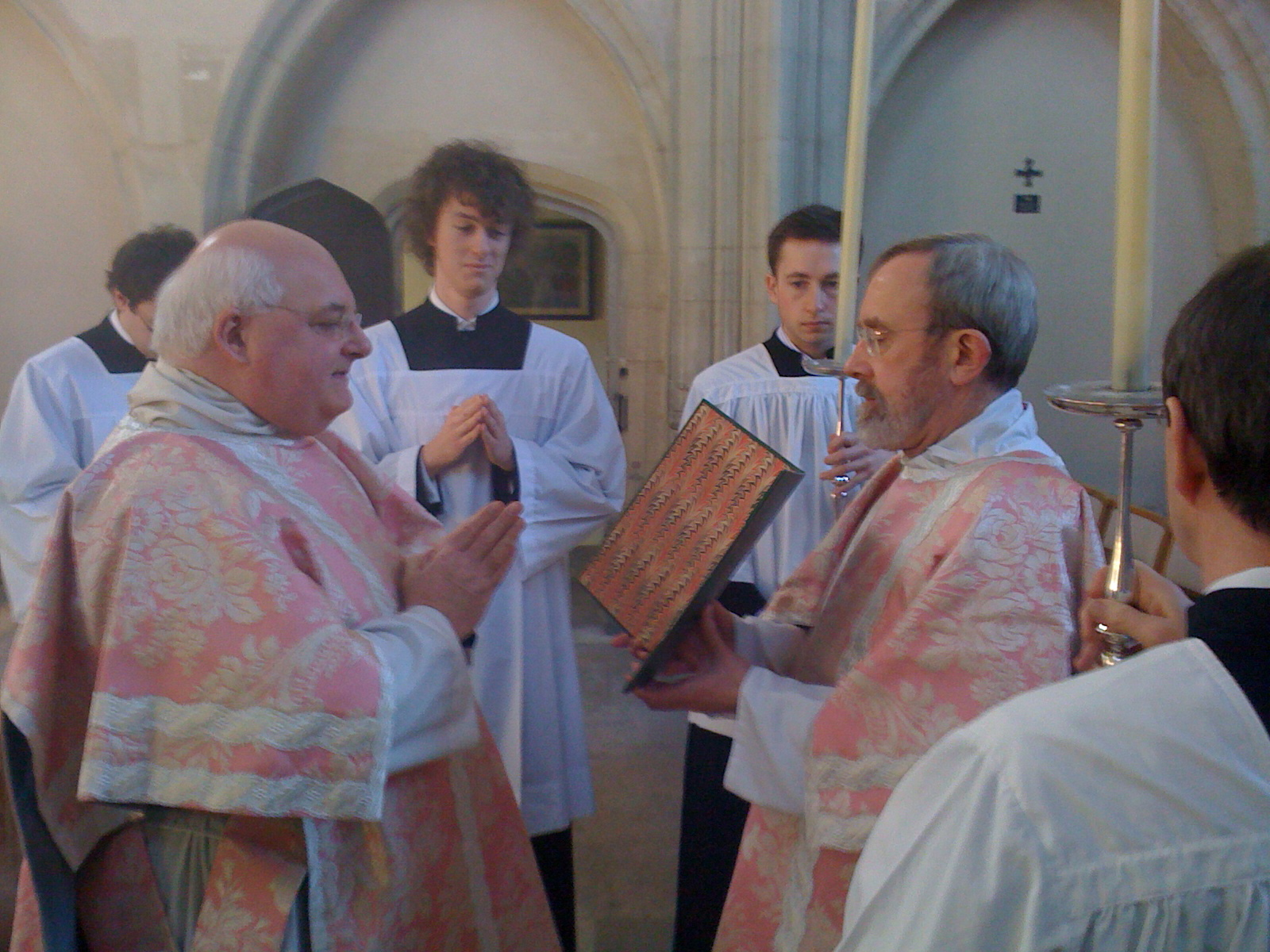 The Gospel at the Solemn Mass on Laetare Sunday, Pusey House.